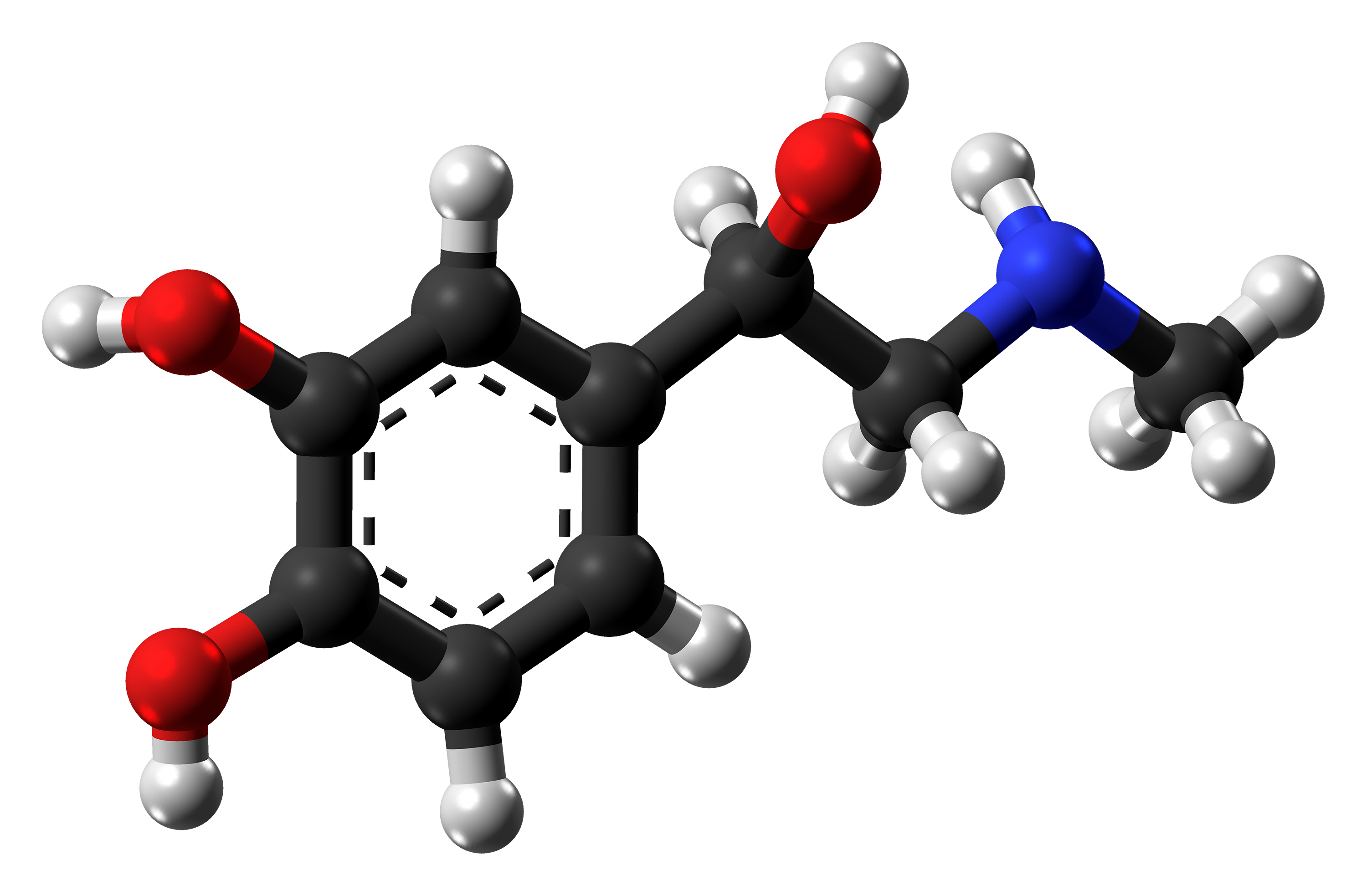 Ball-and-stick model of the adrenaline molecule, also known as epinephrine, a hormone that prepares the body for the fight-or-flight response. Atom positions based on a crystallographic study of (-)-adrenaline hydrogen (+)-tartrate (see source). Color code: Carbon, C: black Hydrogen, H: white Nitrogen, N: blue Oxygen, O: red